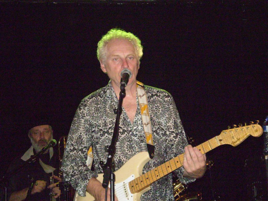 Doe Maar guitarist Jan Hendriks at Delft concert, June 2008